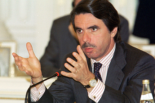 THE KREMLIN, MOSCOW. Prime Minister Jose Maria Aznar of Spain at the Russia-EU summit.